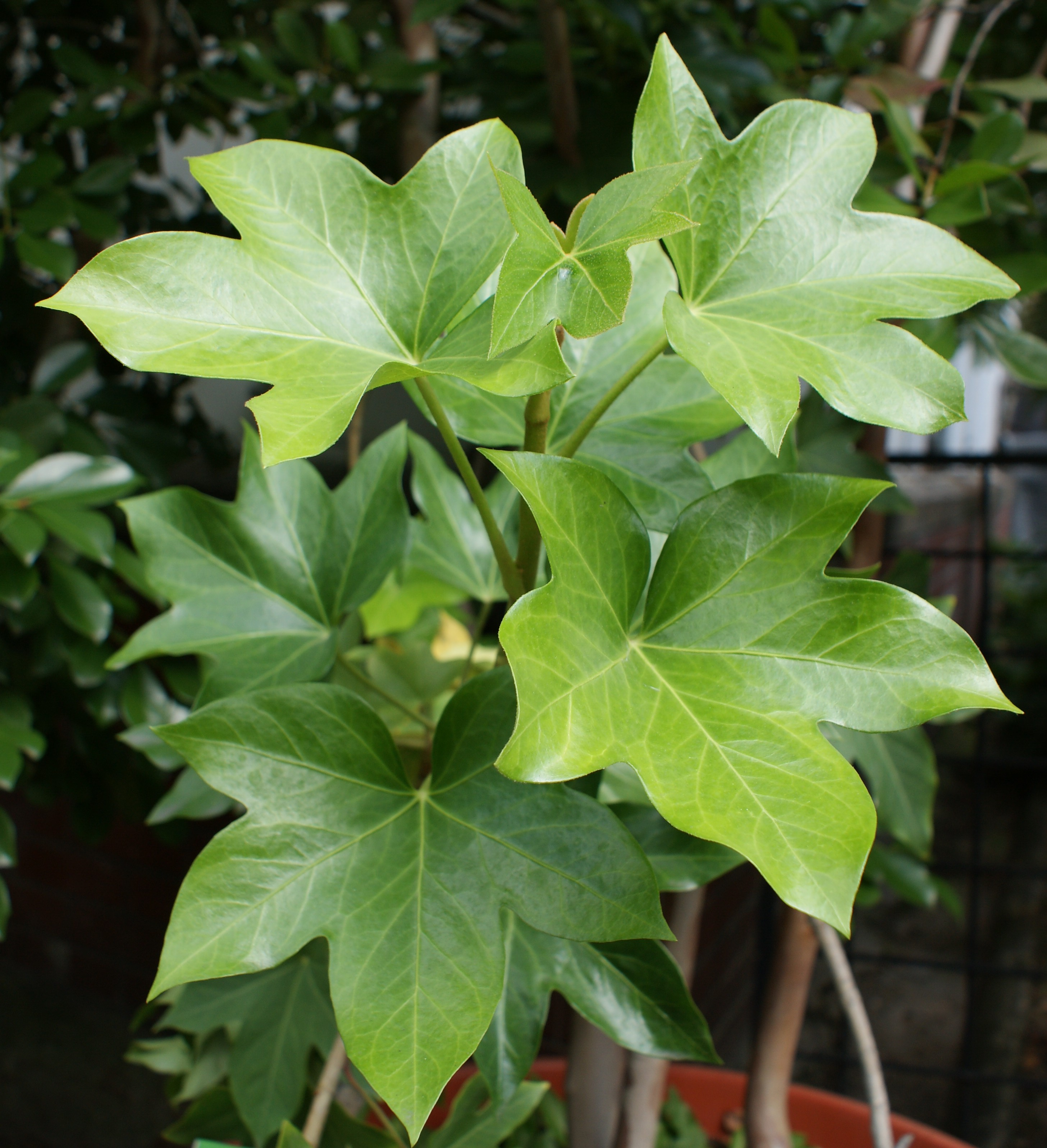 x Fatshedera lizei. Botanic Garden in Wroclaw (Poland)